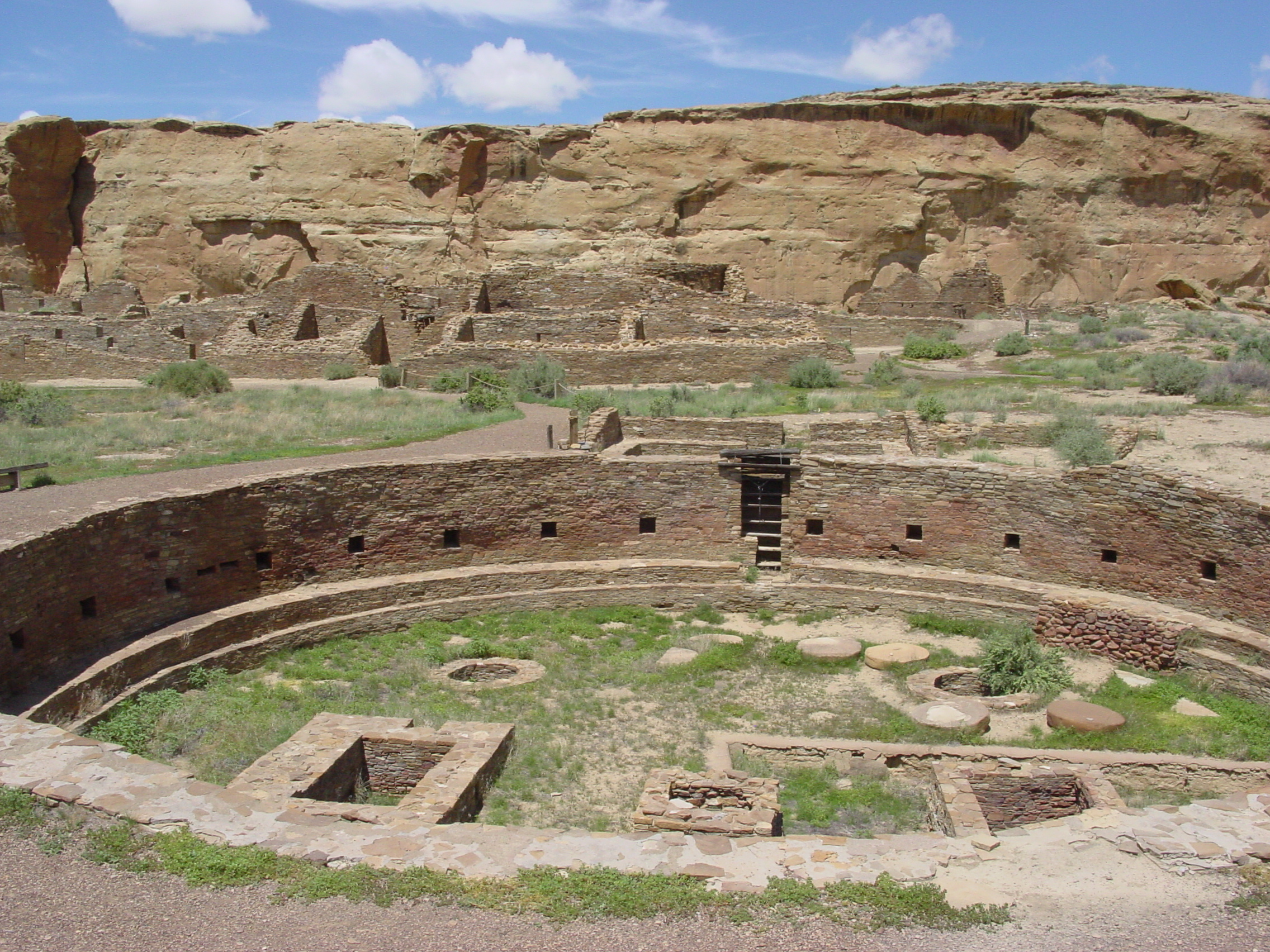 An image of the ruins of Chetro Ketl in Chaco Canyon (New Mexico, United States); shown is the complex's great kiva.